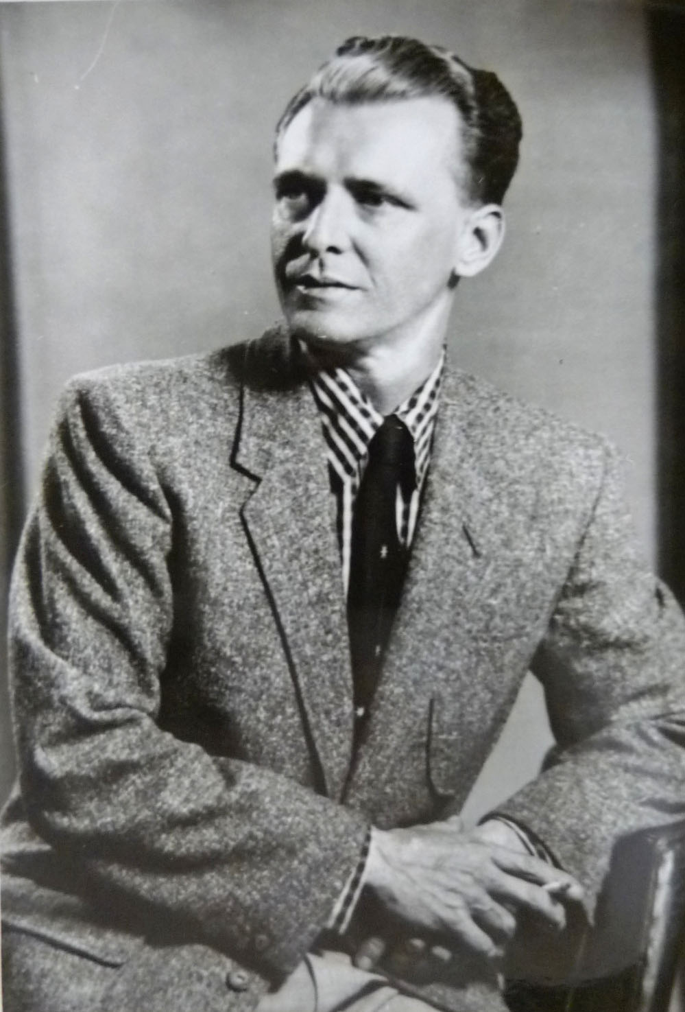 Portrait of Igor B. Polevitzky used in his self-profile.